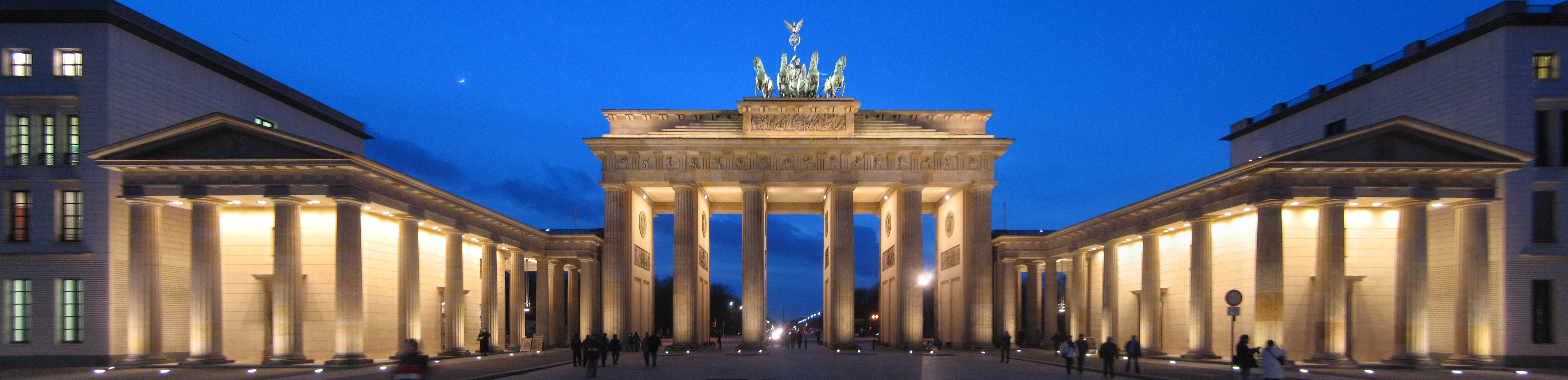 The Brandenburg Gate at night in panorama